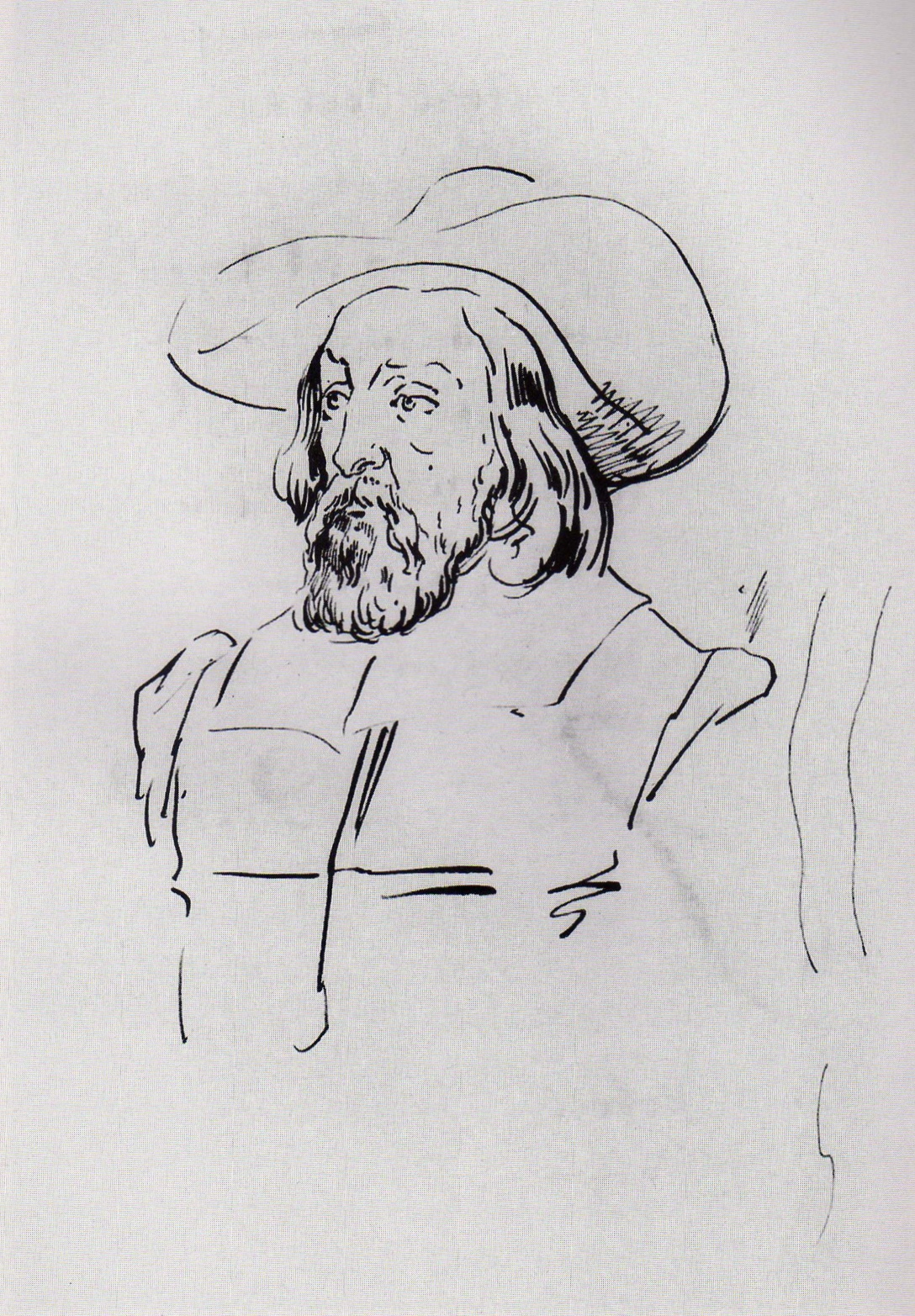 Pen drawing, presumed to be of Pieter Anthonisz Overtwater.